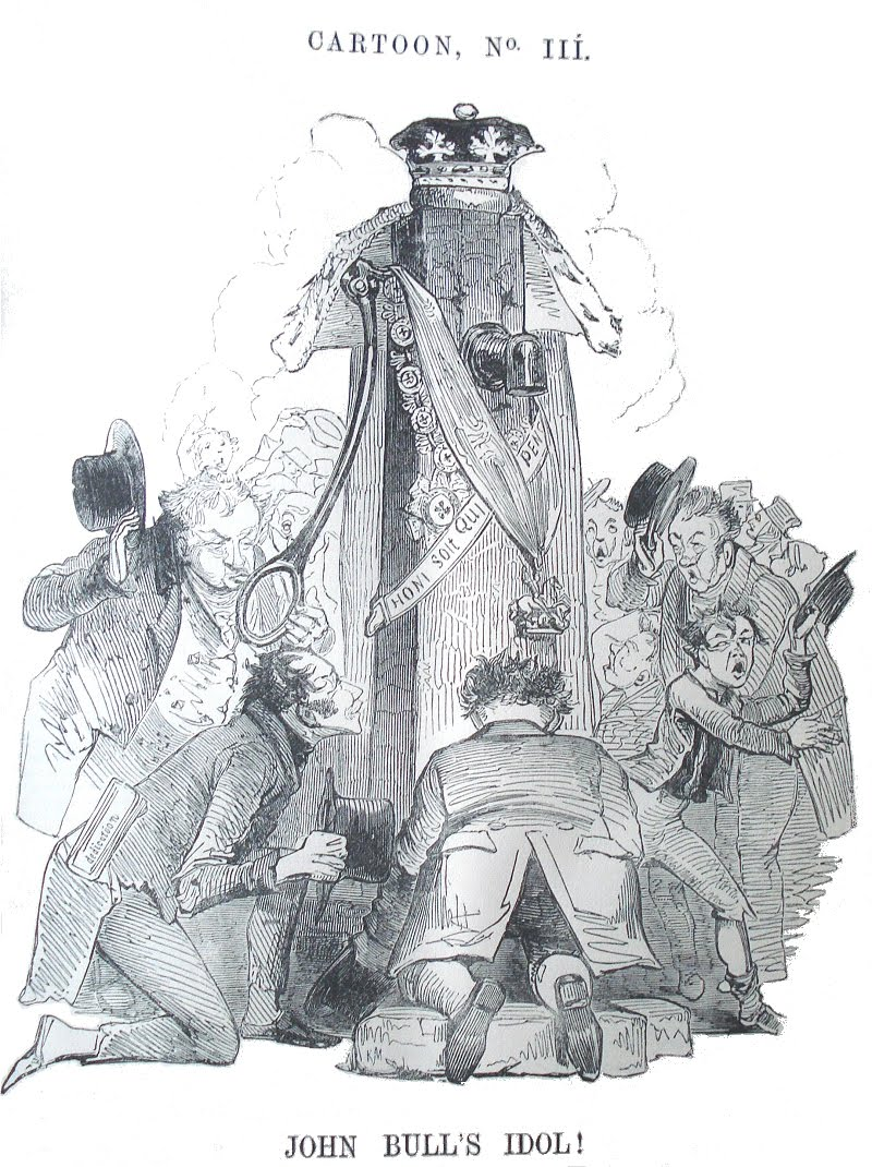 Drawing by Kenny Meadows published in Punch Magazine in 1843, showing men bowing and kissing a water pump.